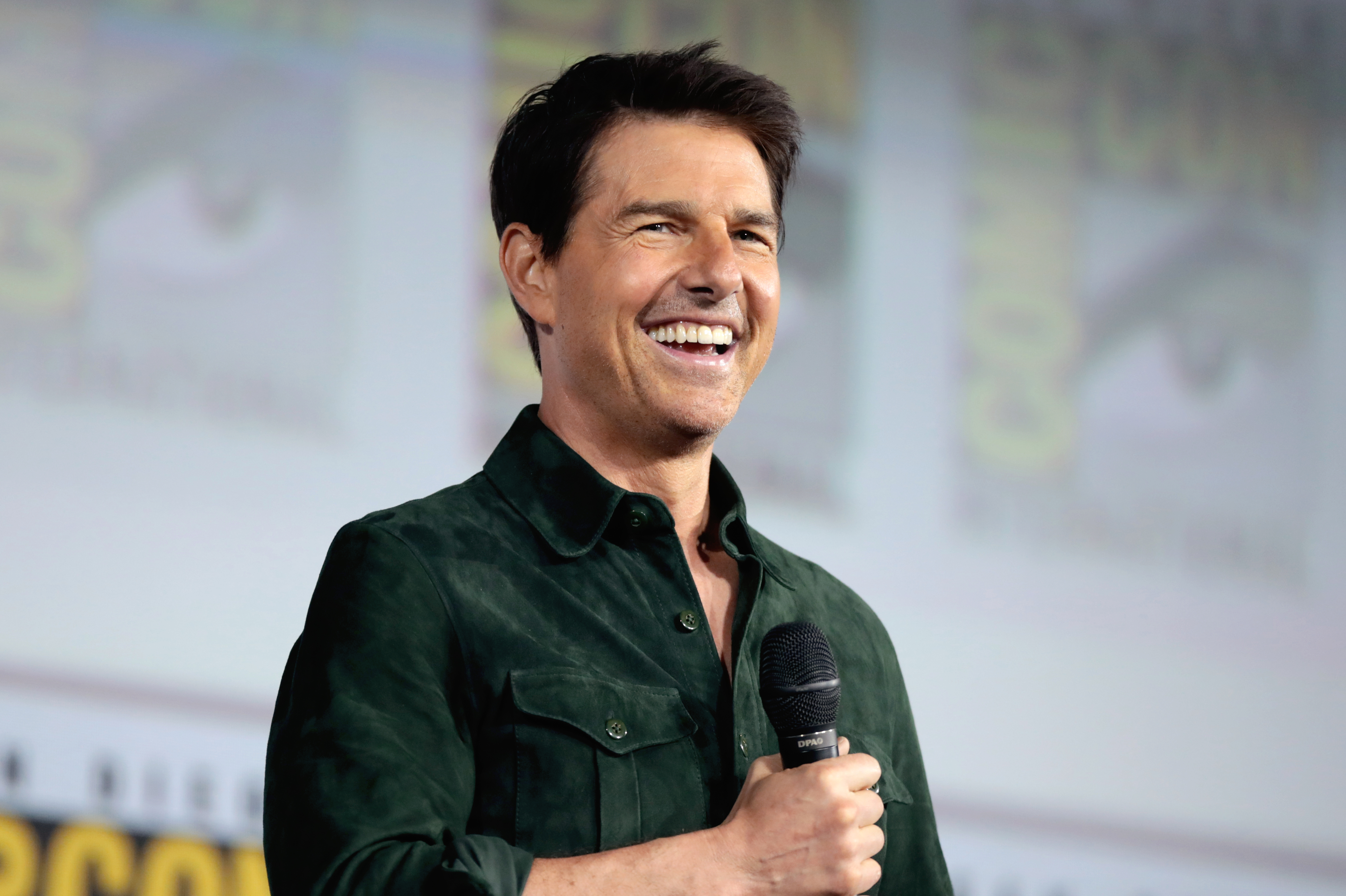 Tom Cruise speaking at the 2019 San Diego Comic Con International, for "Top Gun: Maverick", at the San Diego Convention Center in San Diego, California.